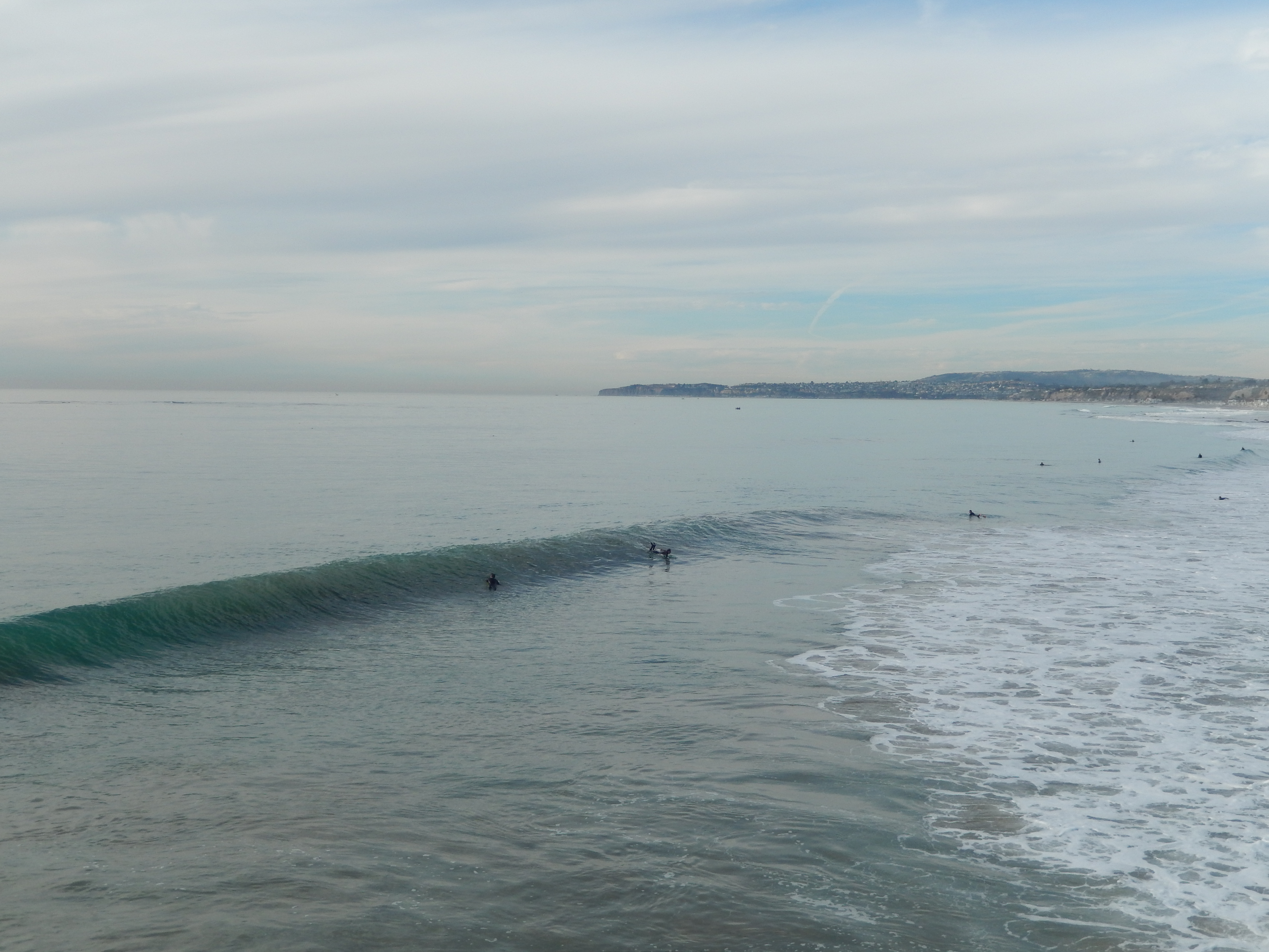 I took photo with Nikon camera at beach at San Clemente, CA.